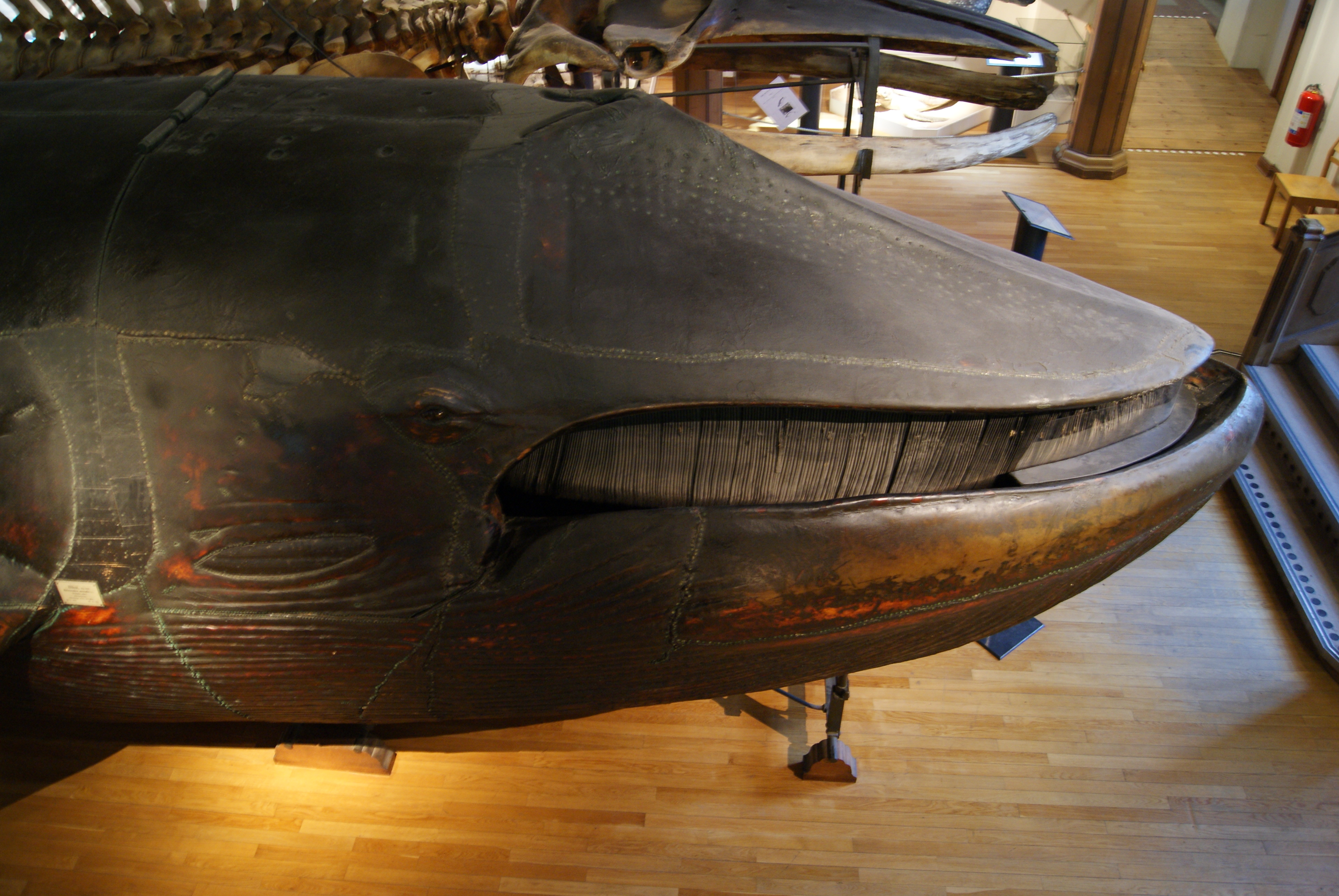 Skeleton and taxidermy preparation of a young male blue whale (Balaenoptera musculus) as on display at the 'Göteborg Natural History Museum', Sweden. A close-up of the head.